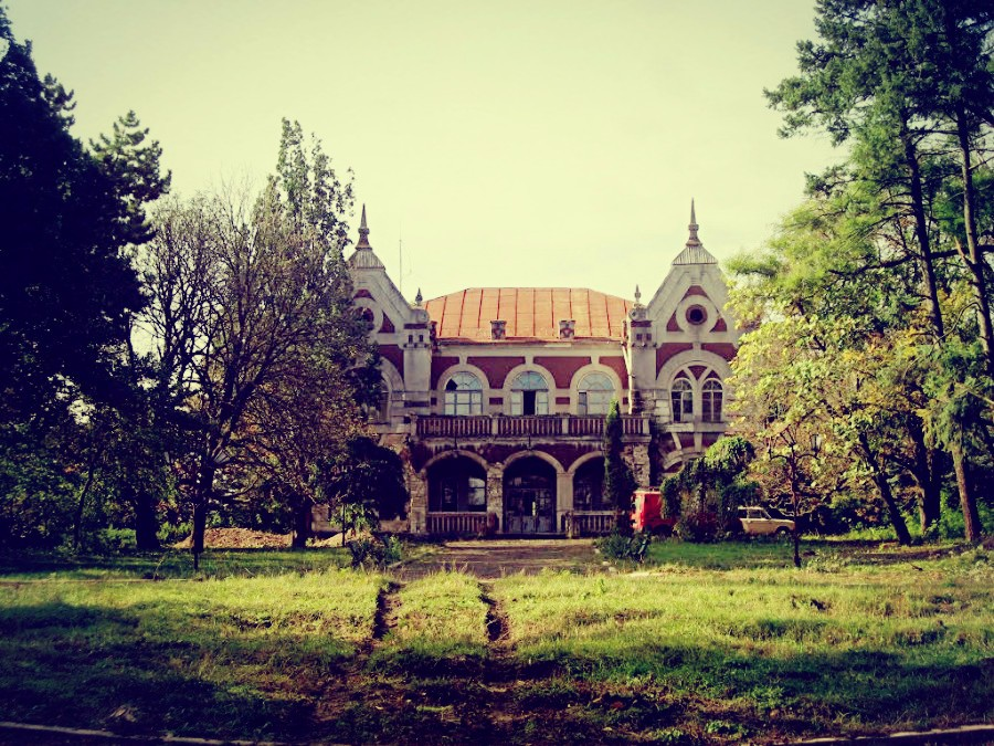 Conacul Pommer